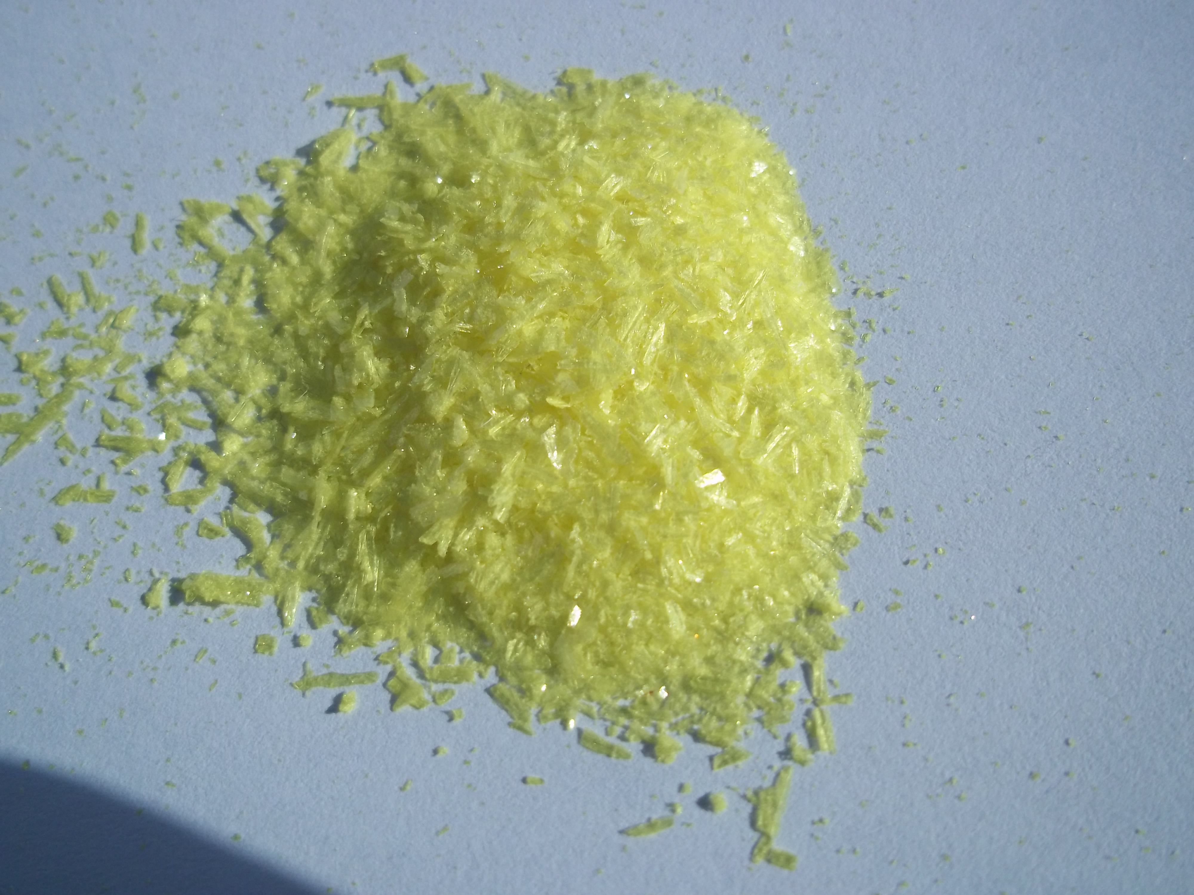 Crystals of 2,6-bis(phenylmethylene)cyclohexanone on a piece of paper.